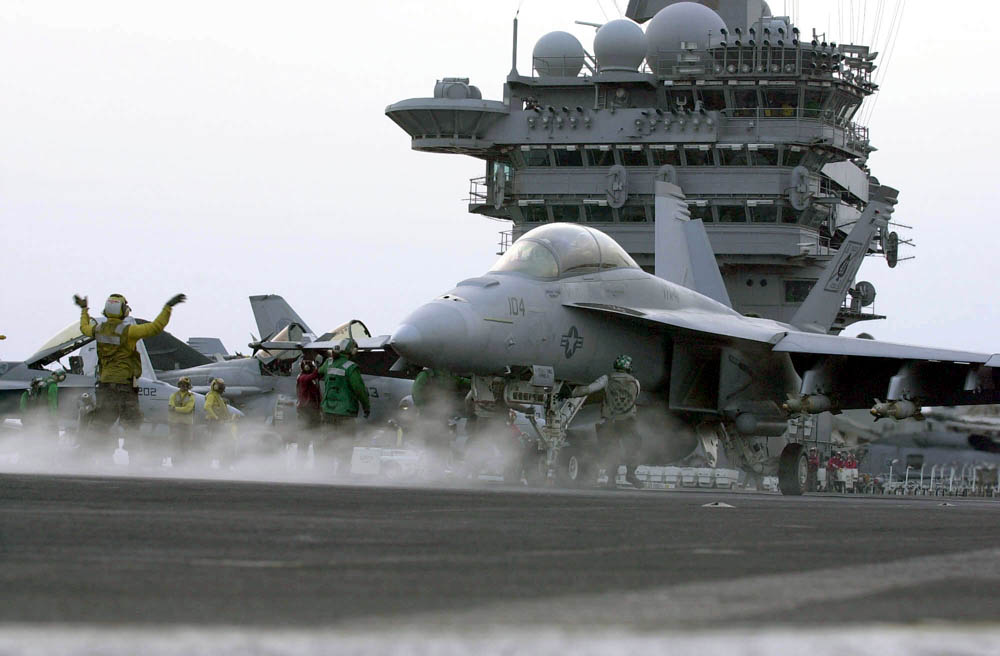 Arabian Gulf (Apr. 19, 2003) -- An F/A-18F Super Hornet assigned to the â€œBlack Acesâ€ of Strike Fighter Squadron Four One (VFA-41) prepares to launch from one of four steam driven catapults on the flight deck of USS Nimitz (CVN 68). Nimitz and her embarked Carrier Air Wing Eleven (CVW-11) are on deployment conducting combat missions in support of Operation Iraqi Freedom. Operation Iraqi Freedom is the multi-national coalition effort to liberate the Iraqi people, eliminate Iraq's weapons of mass destruction, and end the regime of Saddam Hussein.